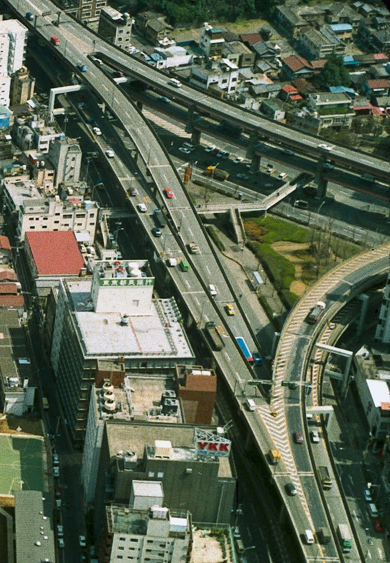 Tanimachi Junction, Minato Ward, Tokyo, Japan